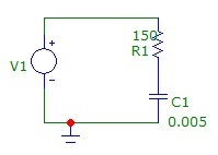 Capacitive circuit